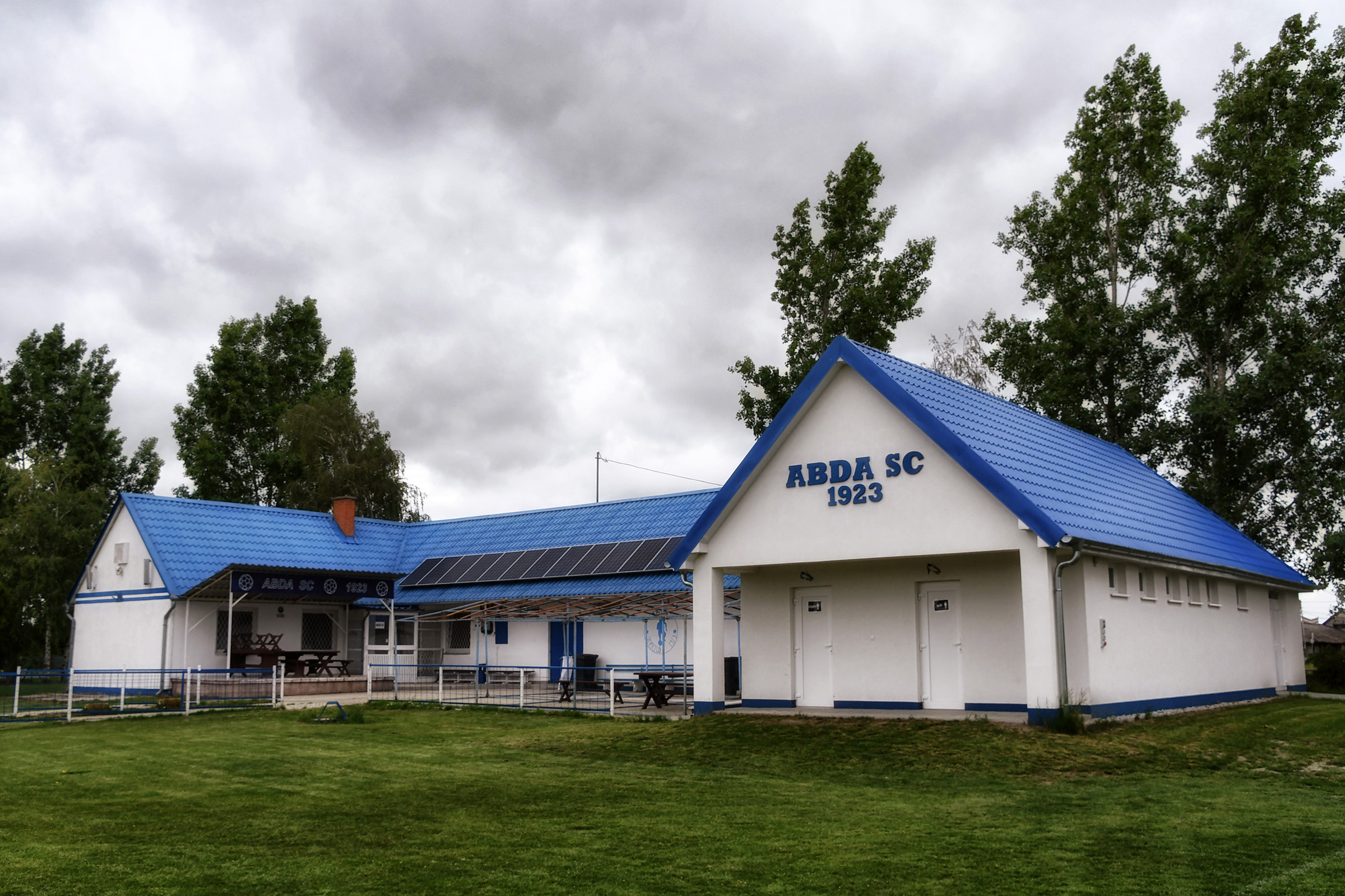 The establishment of the Abda Sport Club